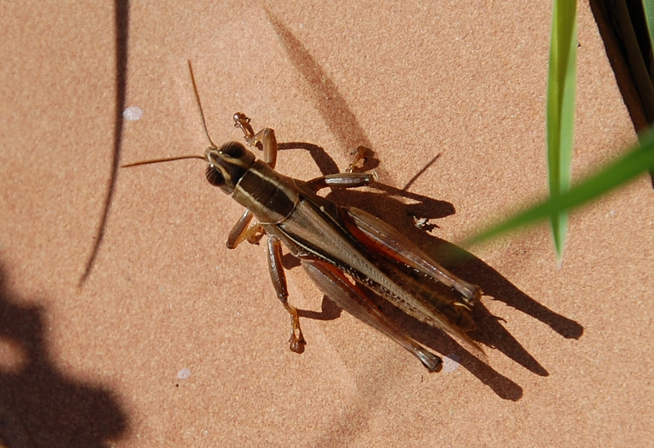 Eyprepocnemis plorans subsp. plorans Addaura, Sicily